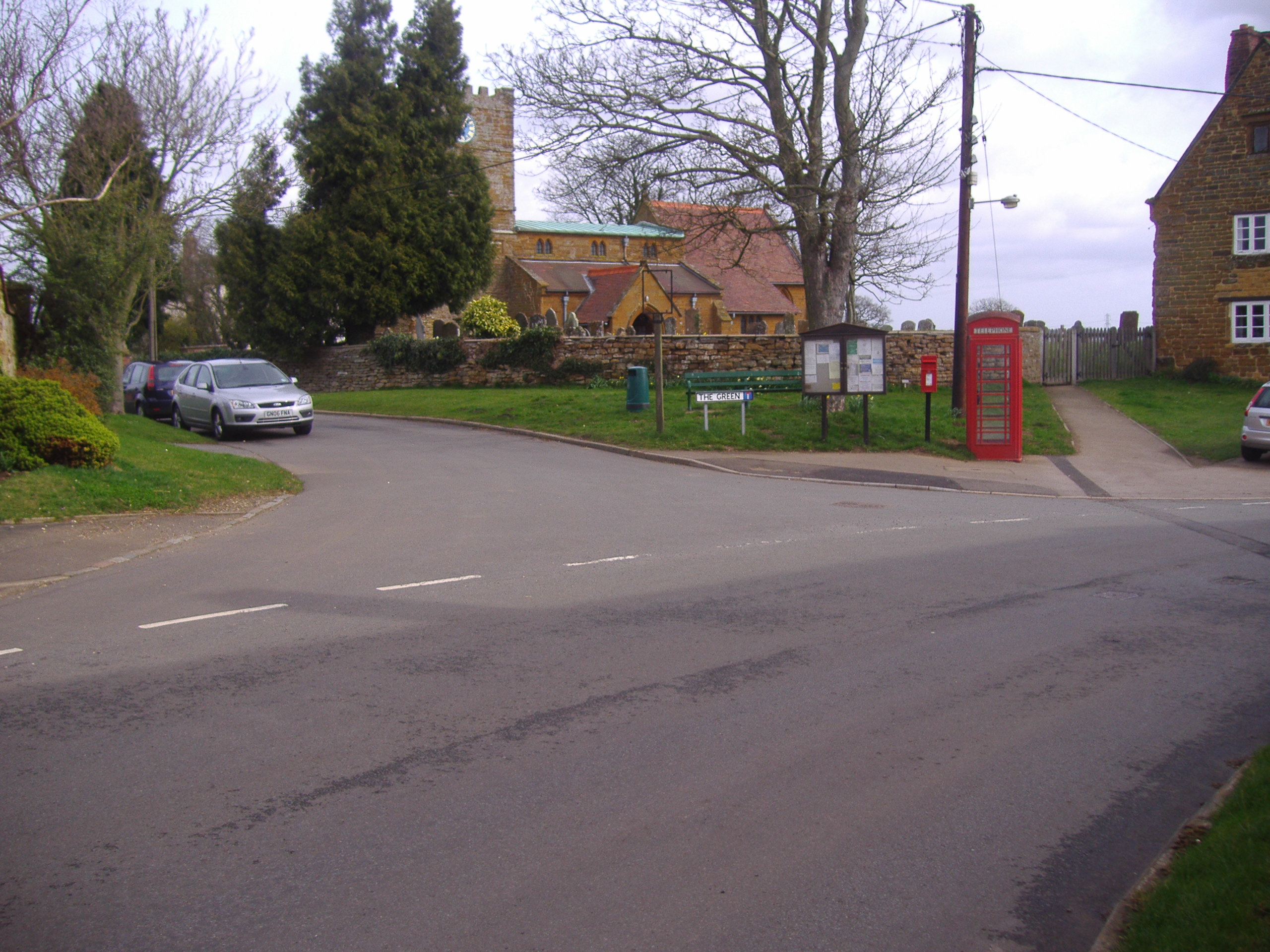 A digital photograph of Whilton Northamptonshire taken on the 29th March 2008 by Stavros1 (talk) 13:59, 29 March 2008 (UTC)